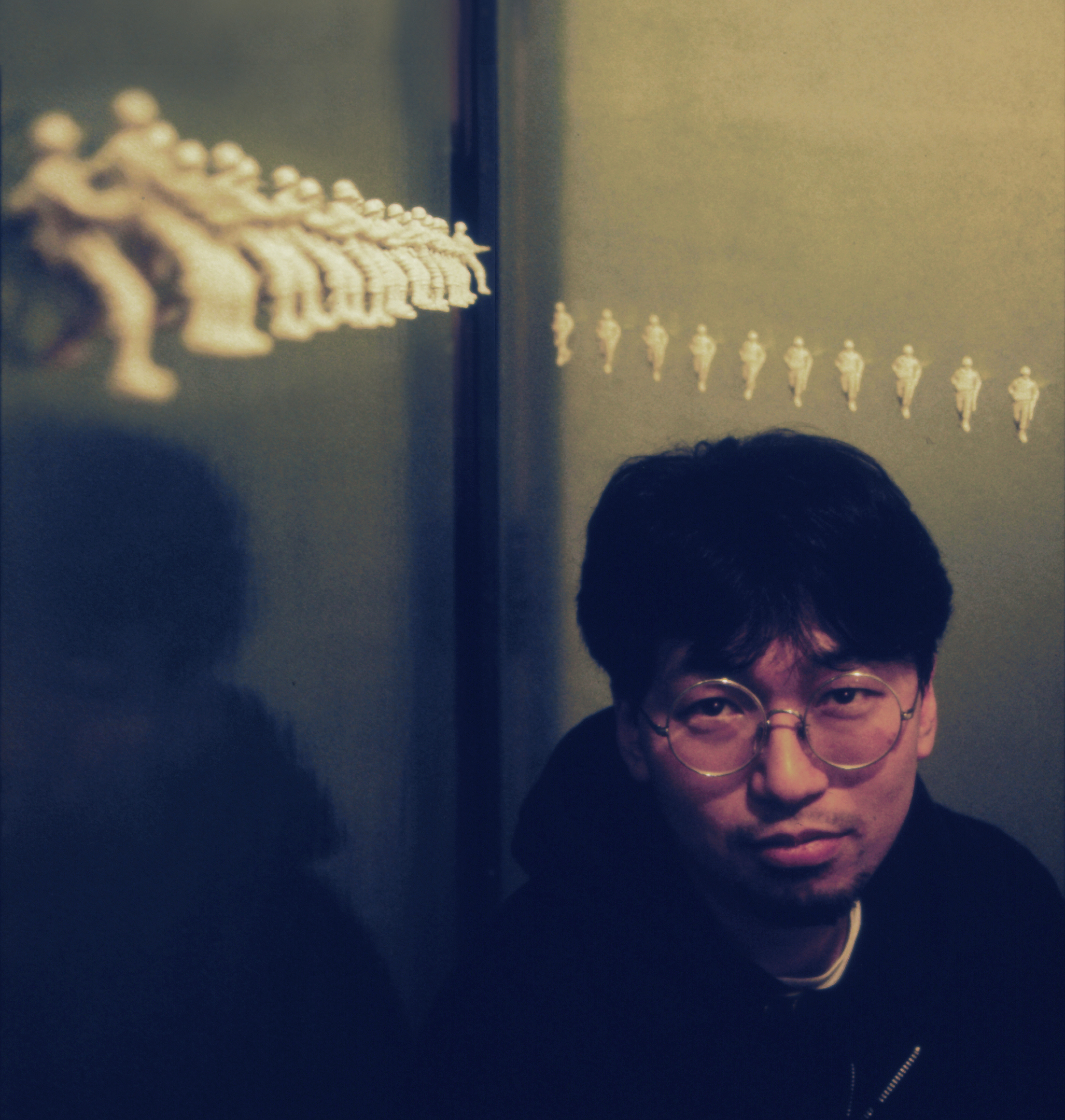 World-renowned "superflat" artist Takashi Murakami, on his thirtieth birthday, with some of his early works at Galerie Mars in Shibuya-Ku,Tokyo 1992. Photo by Ithaka Darin Pappas